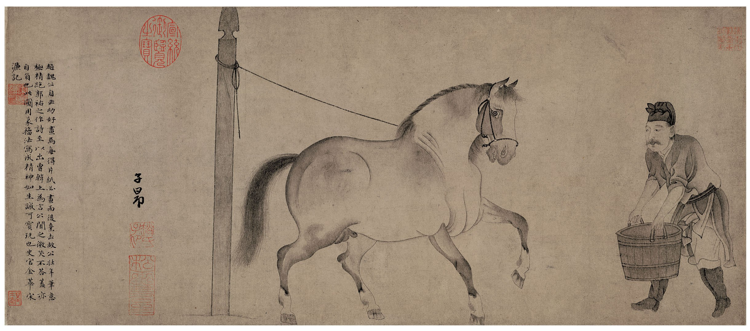 Zhao Mengfu Horse and Groom; Liaoning Provincial Museum